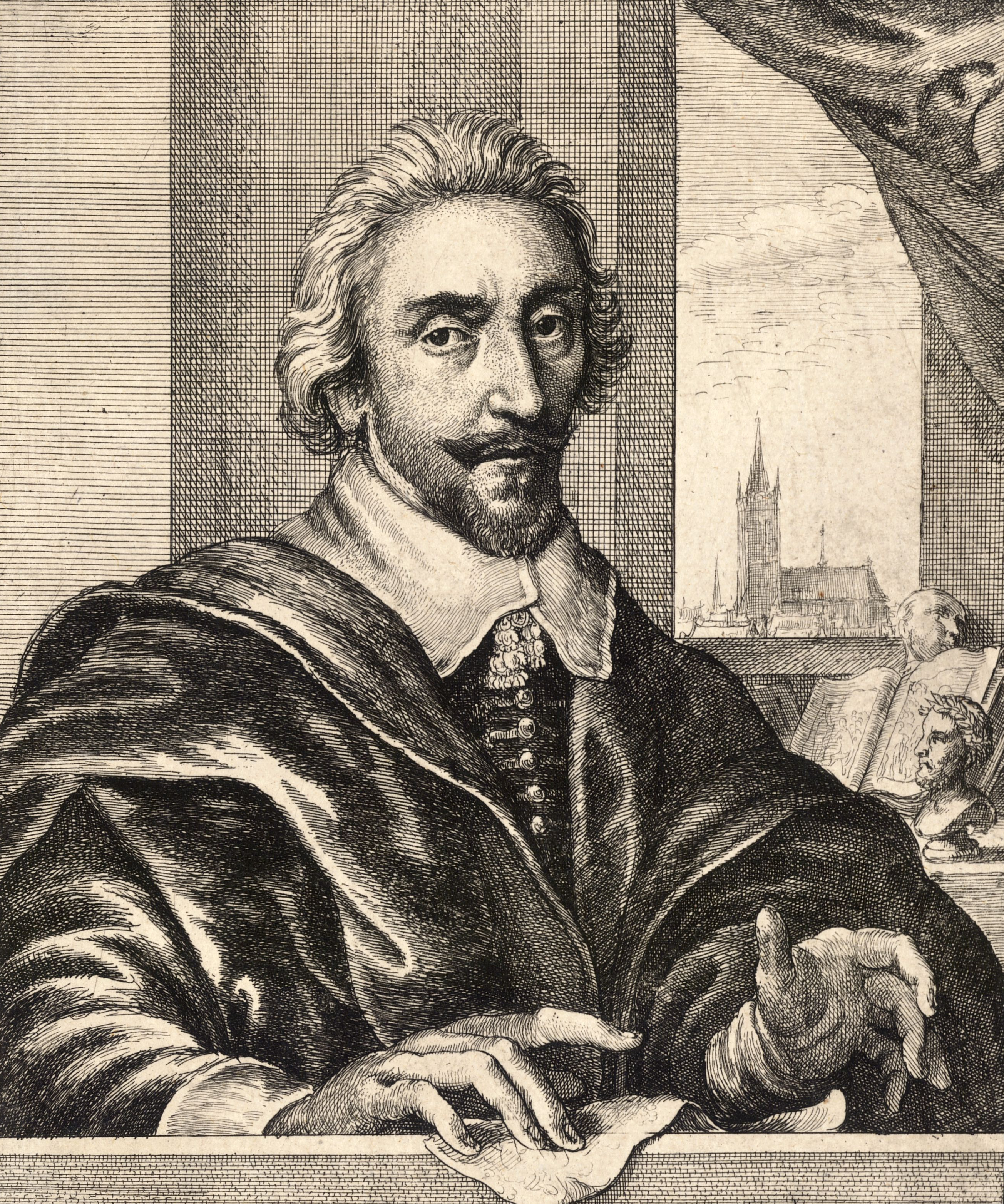 Cropped version of File:Wenceslas Hollar - Adrienne van Venne (State 1).jpg removing text from bottom.